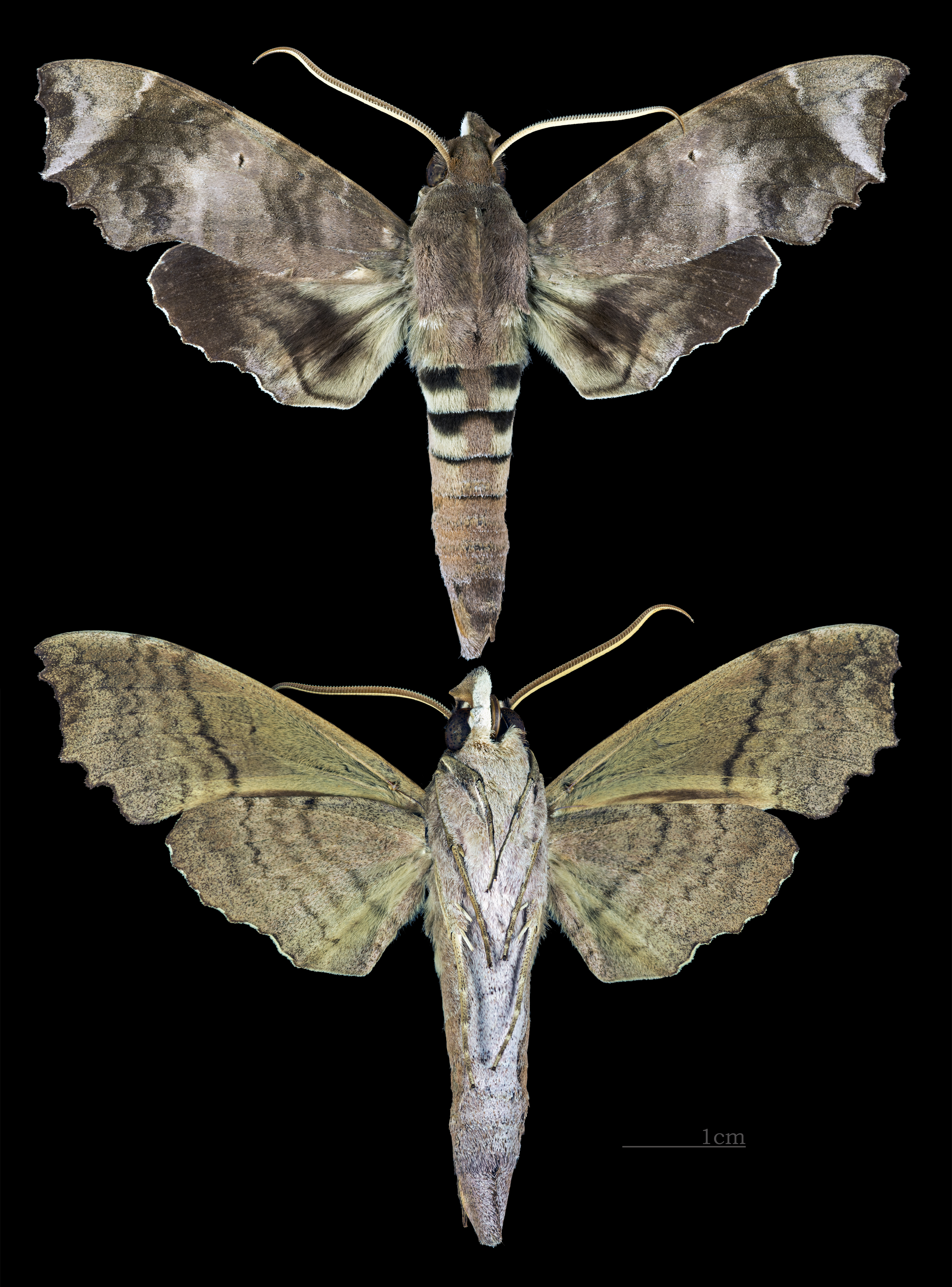 Aleuron carinata - Two views of same specimen